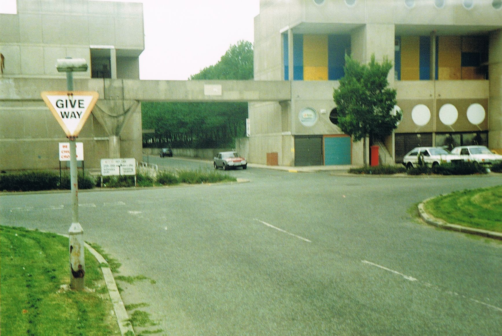 Photo of Southgate Estate in Runcorn, Cheshire, UK, taken in August 1989